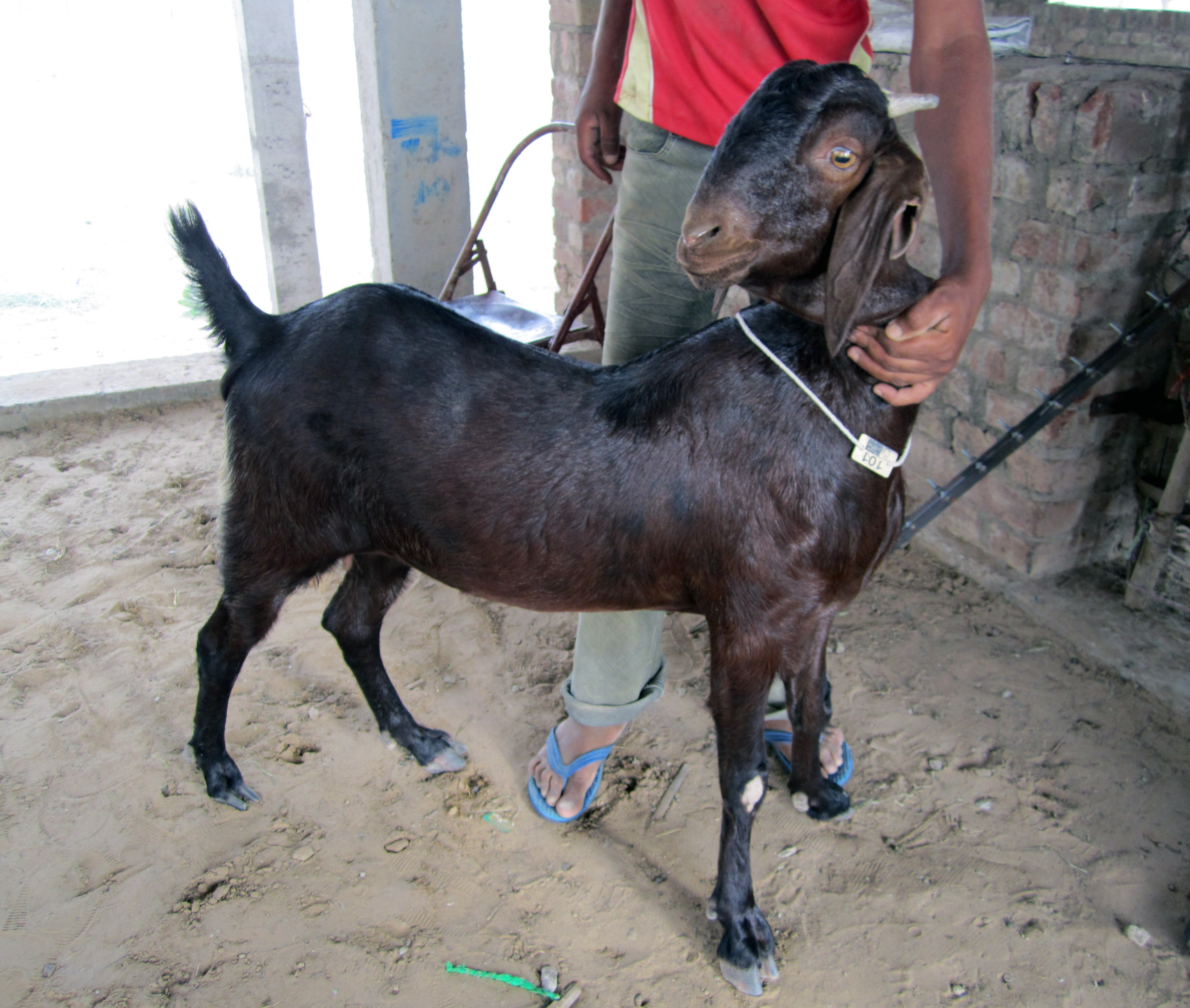 Prabsari Sirohi Does